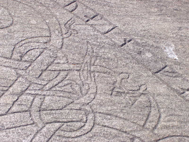 Detail image of a rune stone in Sweden, Uppland Runic Inscription #80.